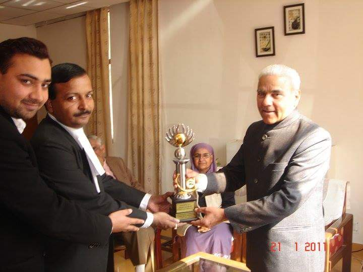 Bar Association giving memorandum to Justice Pritam Pal on his last day as President, State Consumer Disputes Redressal Commission, Chandigarh.